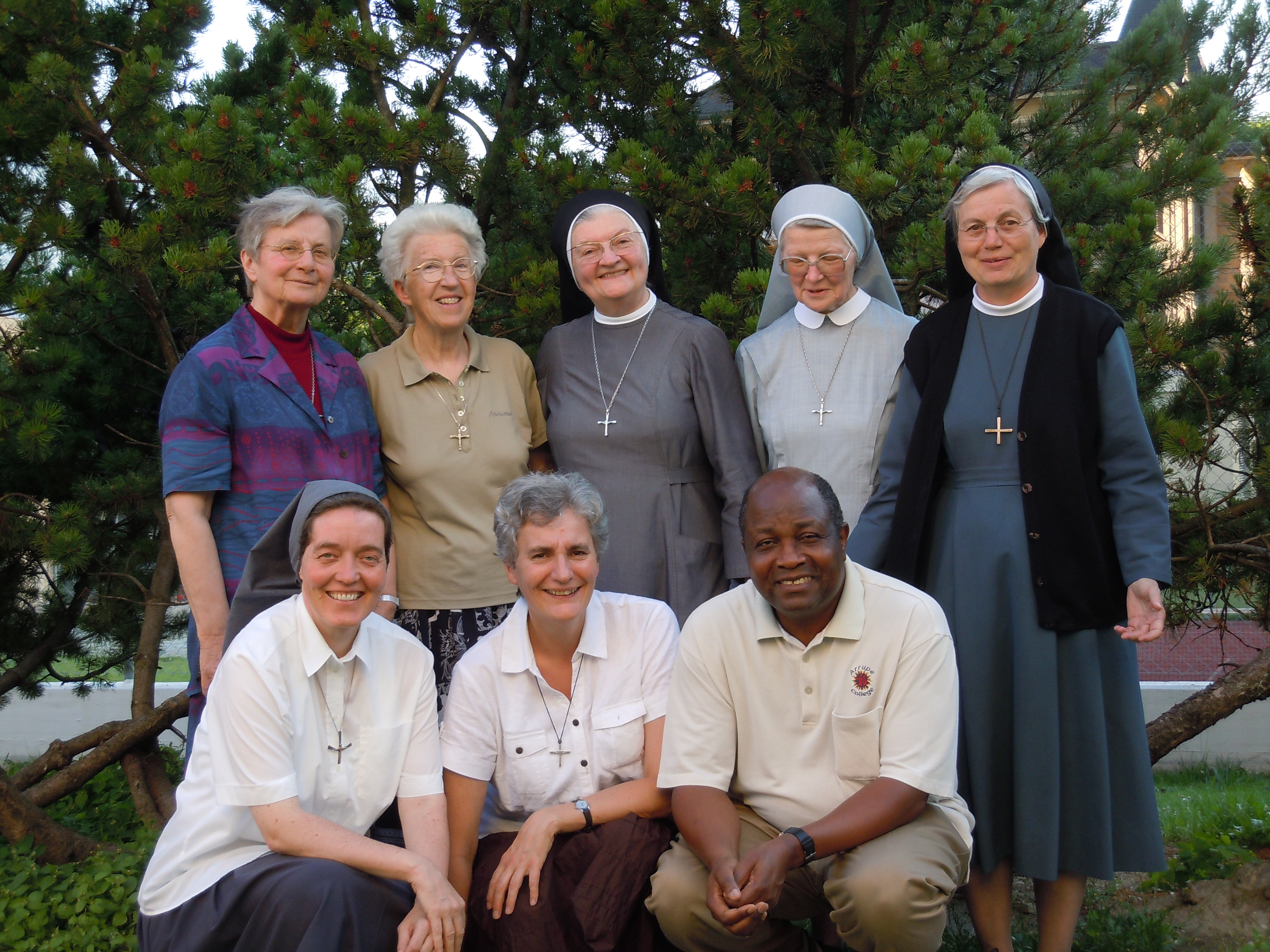 Photograph of the 7 Superiors General of the catholic religious order Society of the Sisters of Saint Ursula of Anne de Xainctonge, taken in 2011